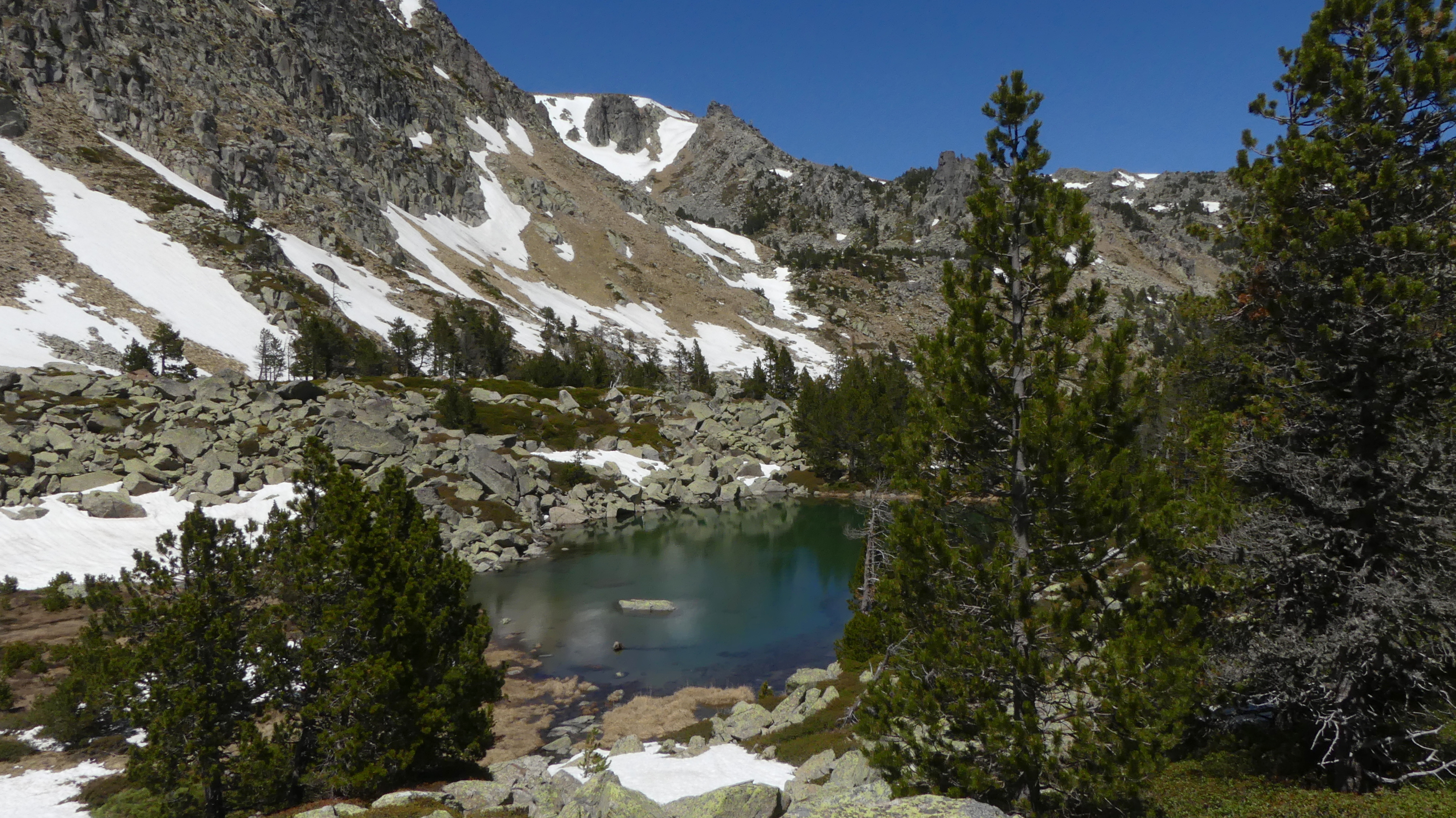 Gorg Blau; Mountain pond at 2130 m; southern slope of Madrès; last snow patches; RNN Nohèdes